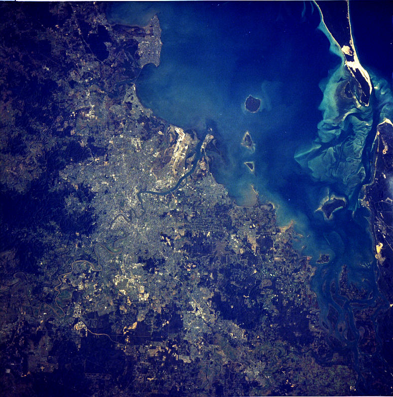 satellite image of the Brisbane Metropolitan Area and surrounding Islands of Moreton Bay